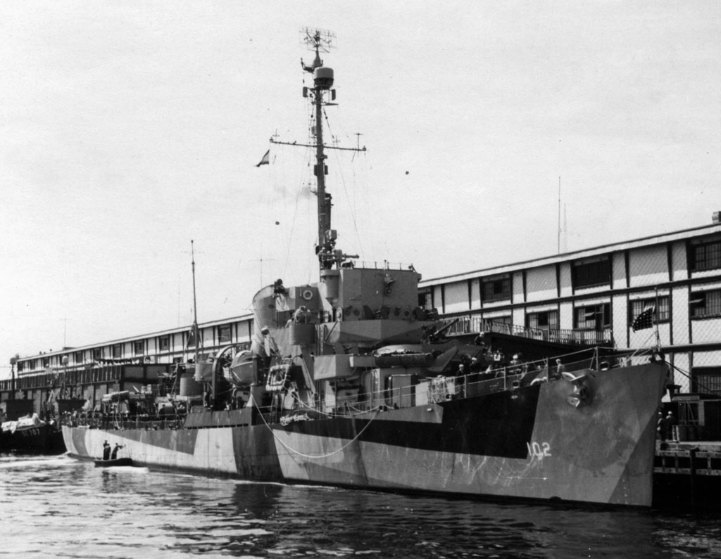 USS Thomas (DE-102). Location: likely Green Cove Springs, Florida, United States.